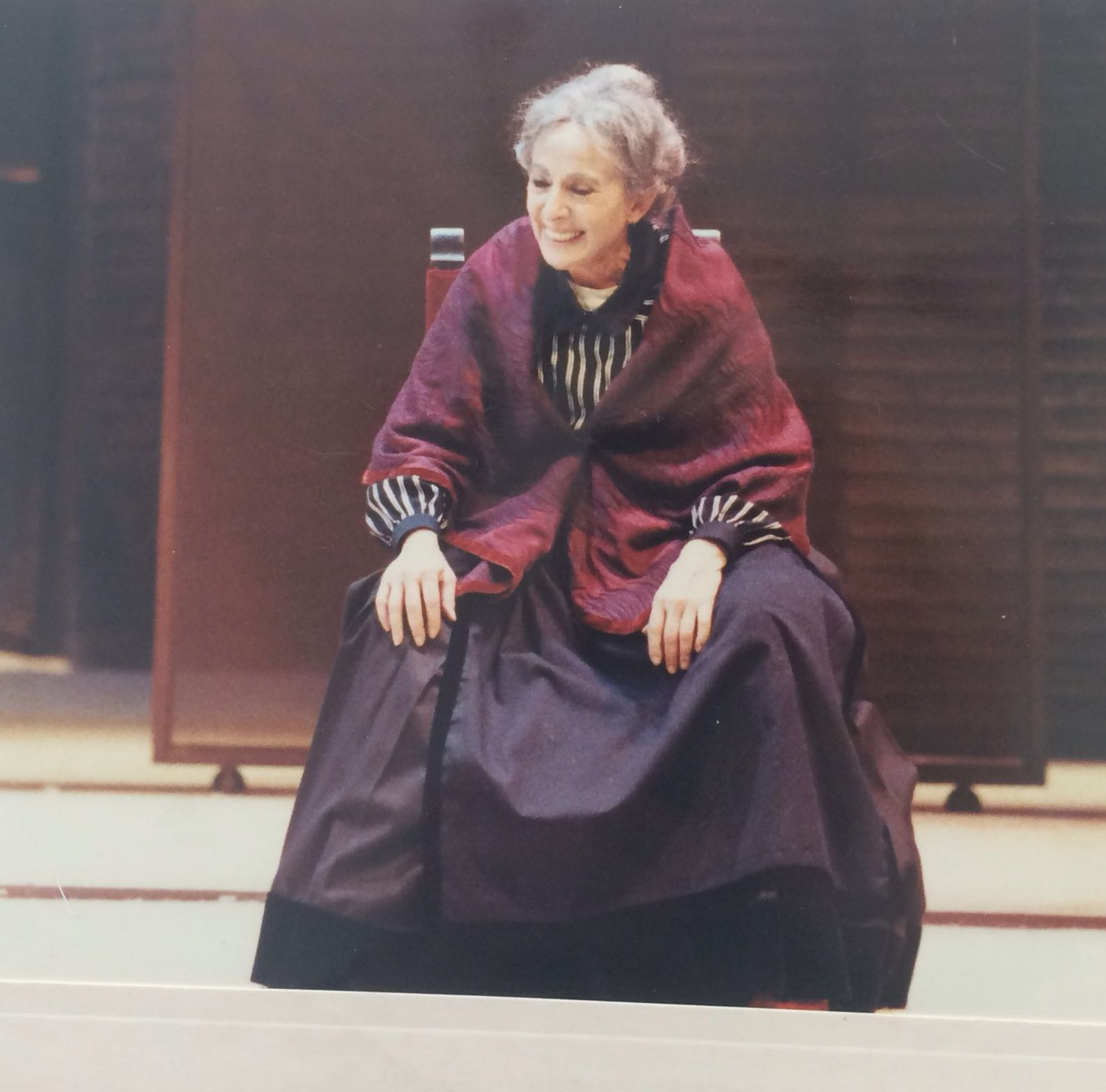 Encarna Paso as Fabia in El Caballero de OlmedoDepicted person: Encarna Paso – Spanish actress